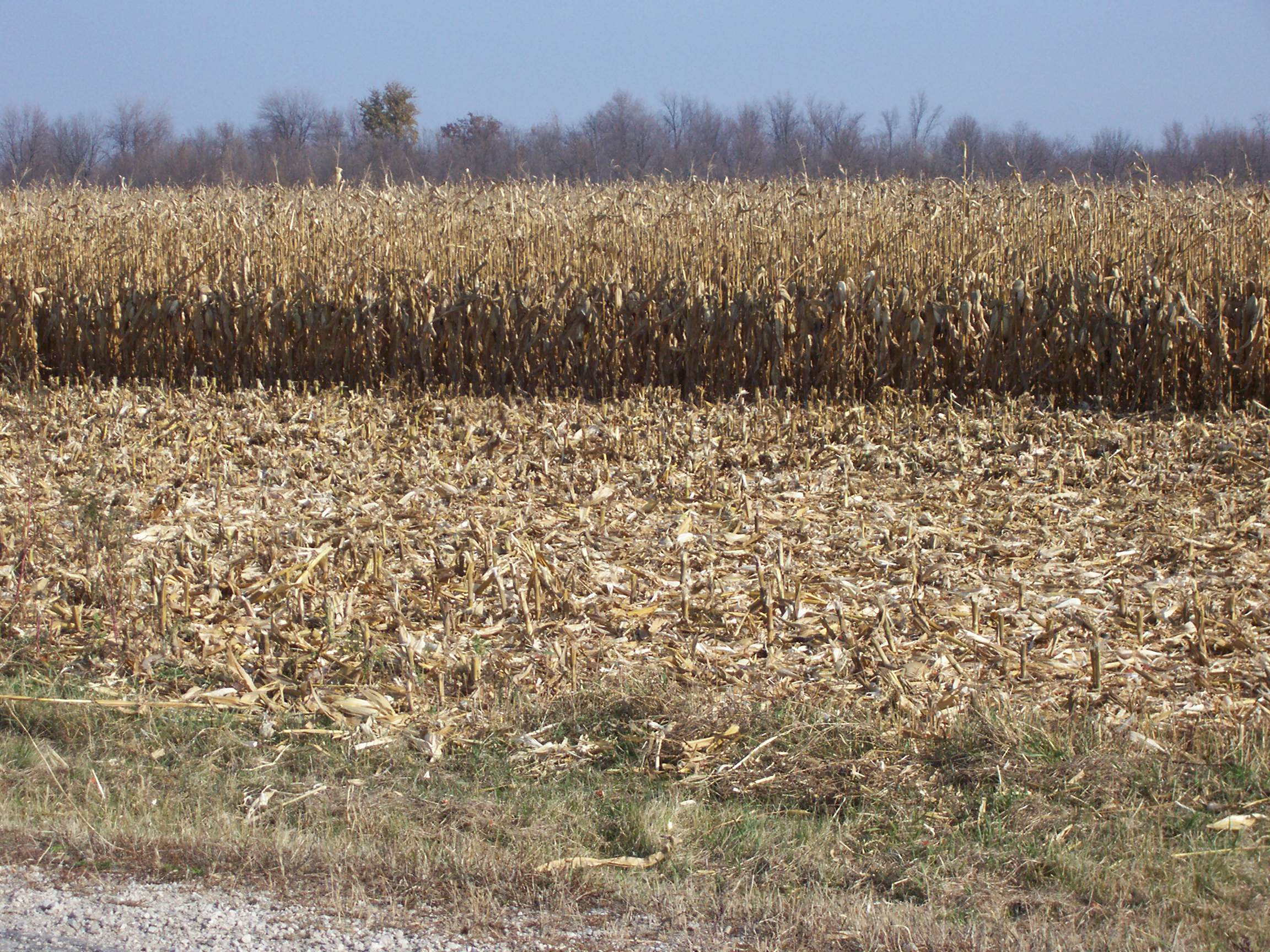 A cornfield Calumet County, Wisconsin with Stover (harvested corn) in the foreground and unharvested corn in the background.